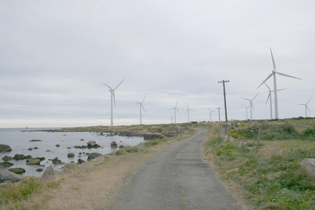 Wind Farm, Nethertown. Dozens of turbines covering most of Carnsore Point.